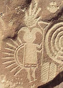 Pre-historic petroglyph representation of a Navajo deity at an archaeological site in Dinétah. Largo Canyon area, New Mexico. Diné bizaad: Tsé bikʼinaashchʼąąʼ, Dinétahdi.